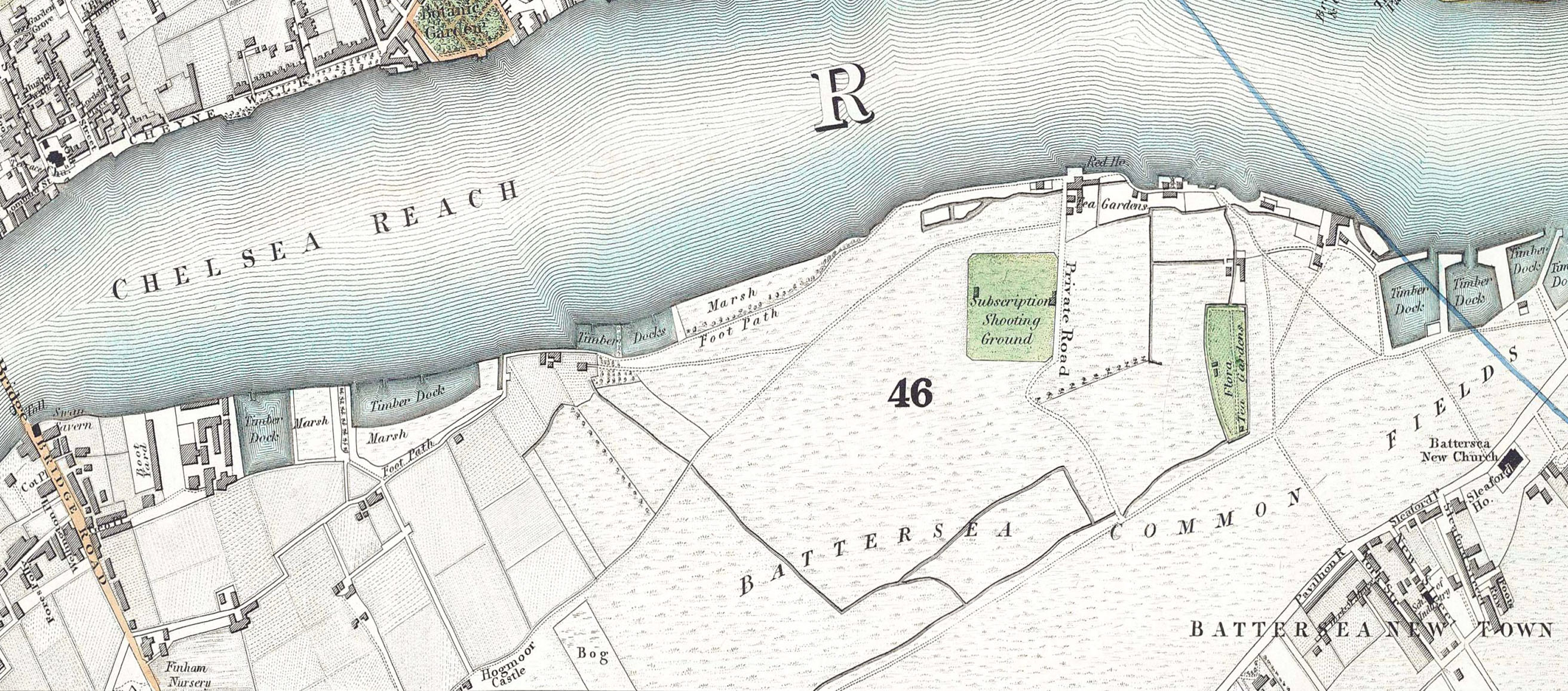 Christopher and John Greenwood's's 8 inches to the mile 6 sheet map was first published in 1827